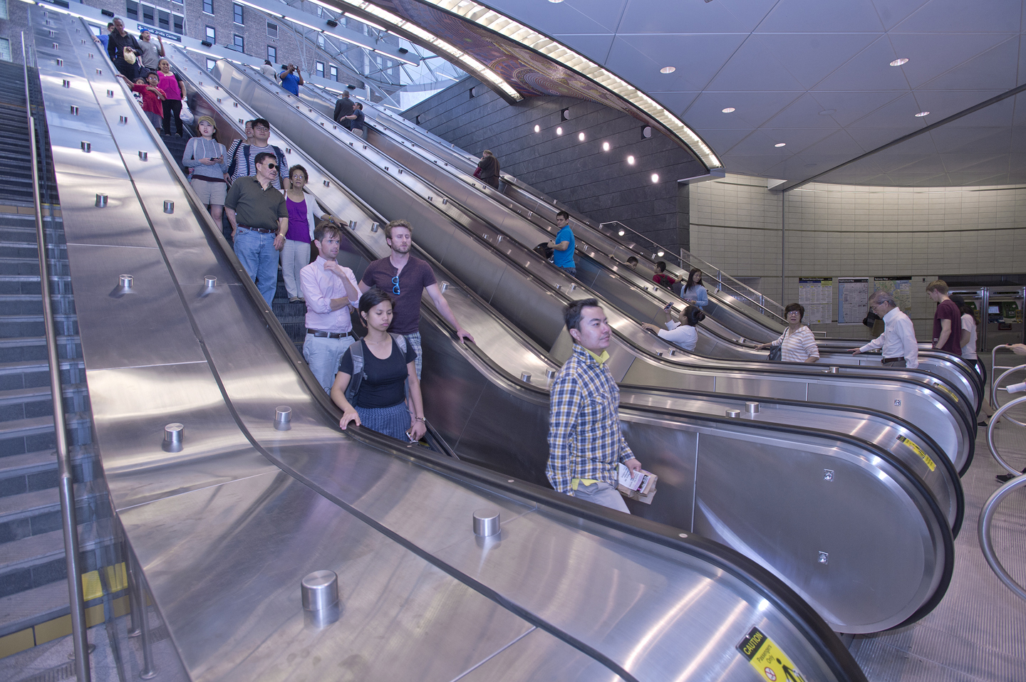 MTA Chairman and CEO Thomas Prendergast joins elected officials to dedicate the new 34 St-Hudson Yards station on Sun., September 13, 2015, which extends the 7 line to the West Side. Photo: Metropolitan Transportation Authority / Patrick Cashin